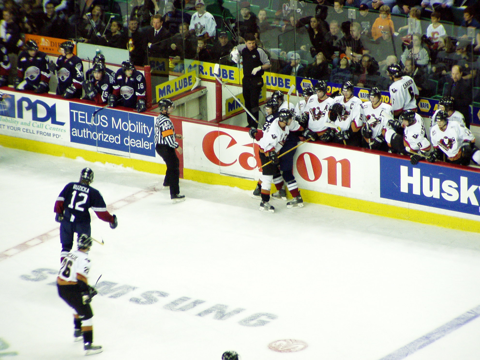 Action during Calgary Hitmen and Lethbridge Hurricanes game at the Pengrowth Saddledome. Taken during game 3 of the first round of the playoffs, March 29, 2005.